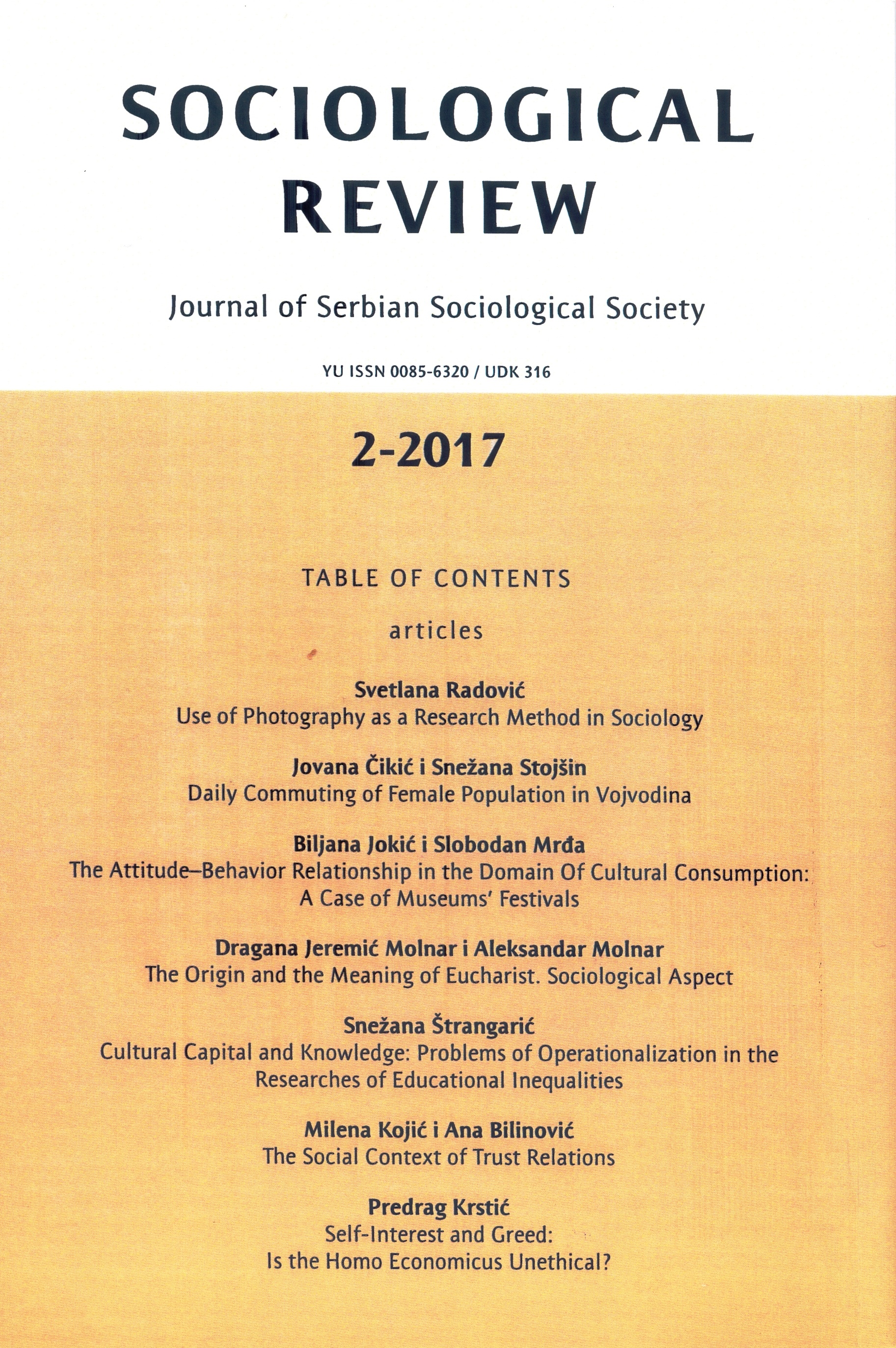 Cover of journal Socioloski pregled in english, Serbia